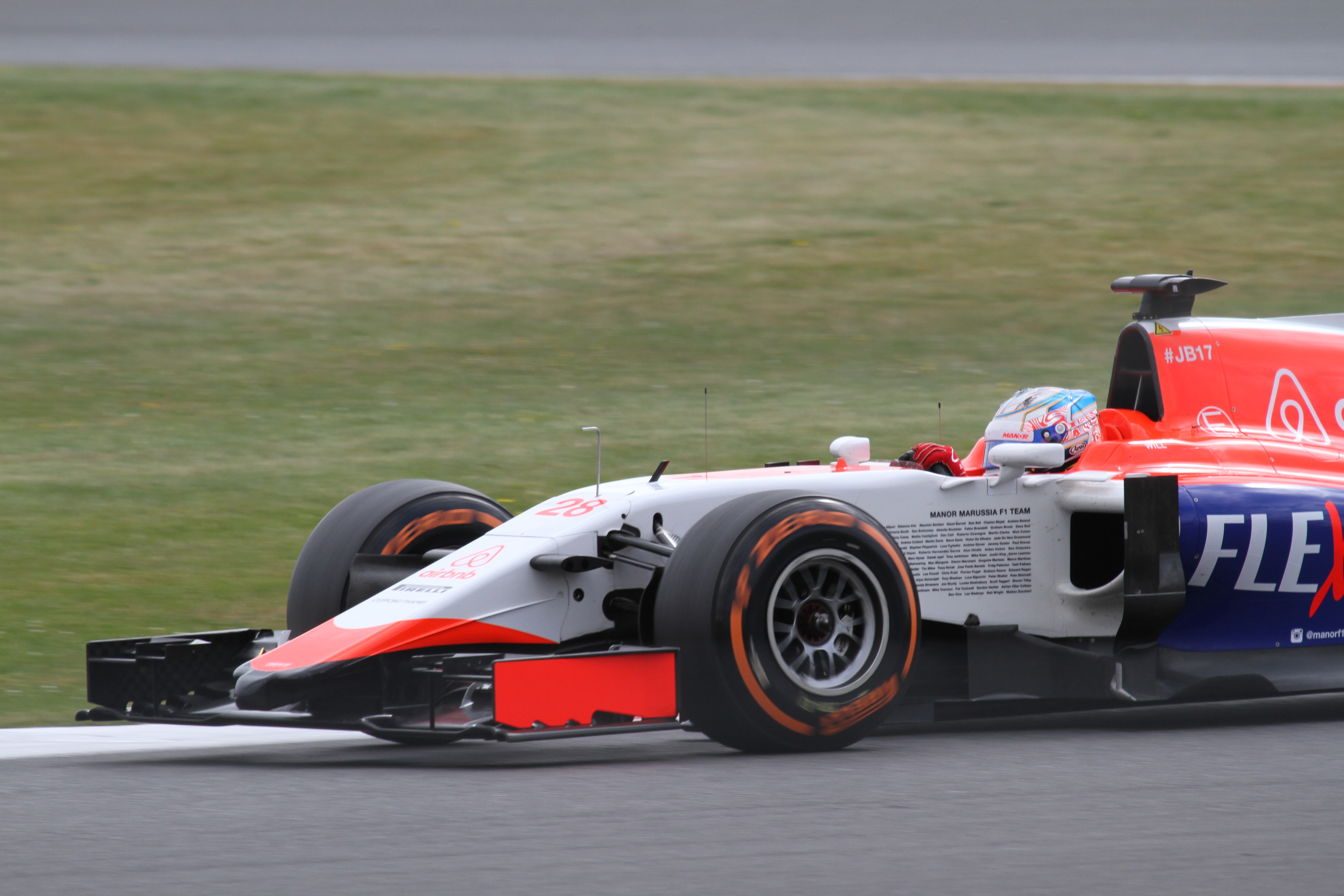 Will Stevens in the Marussia MR03B at Silverstone 2015